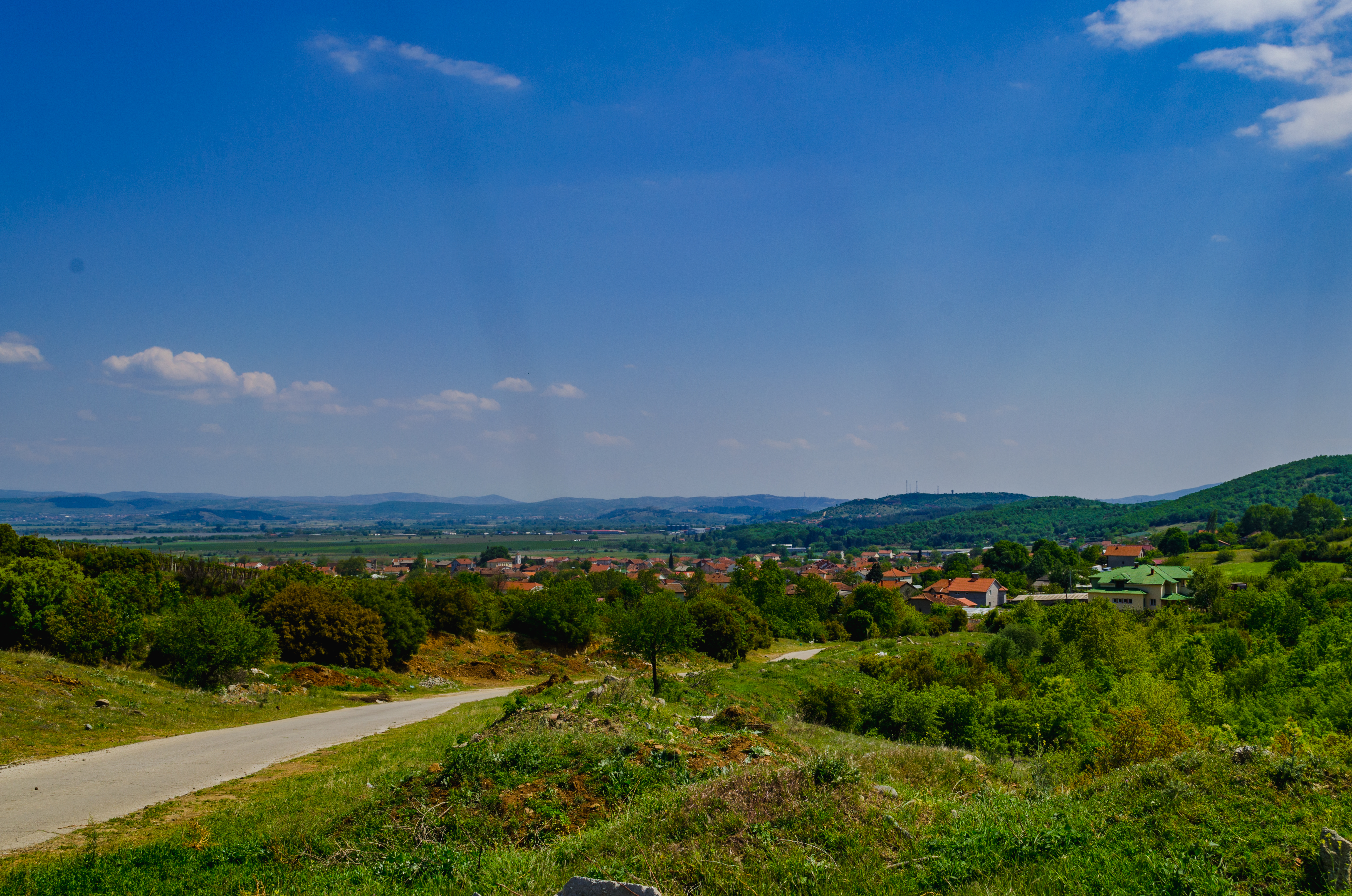 Panoramic view of the village Negorci